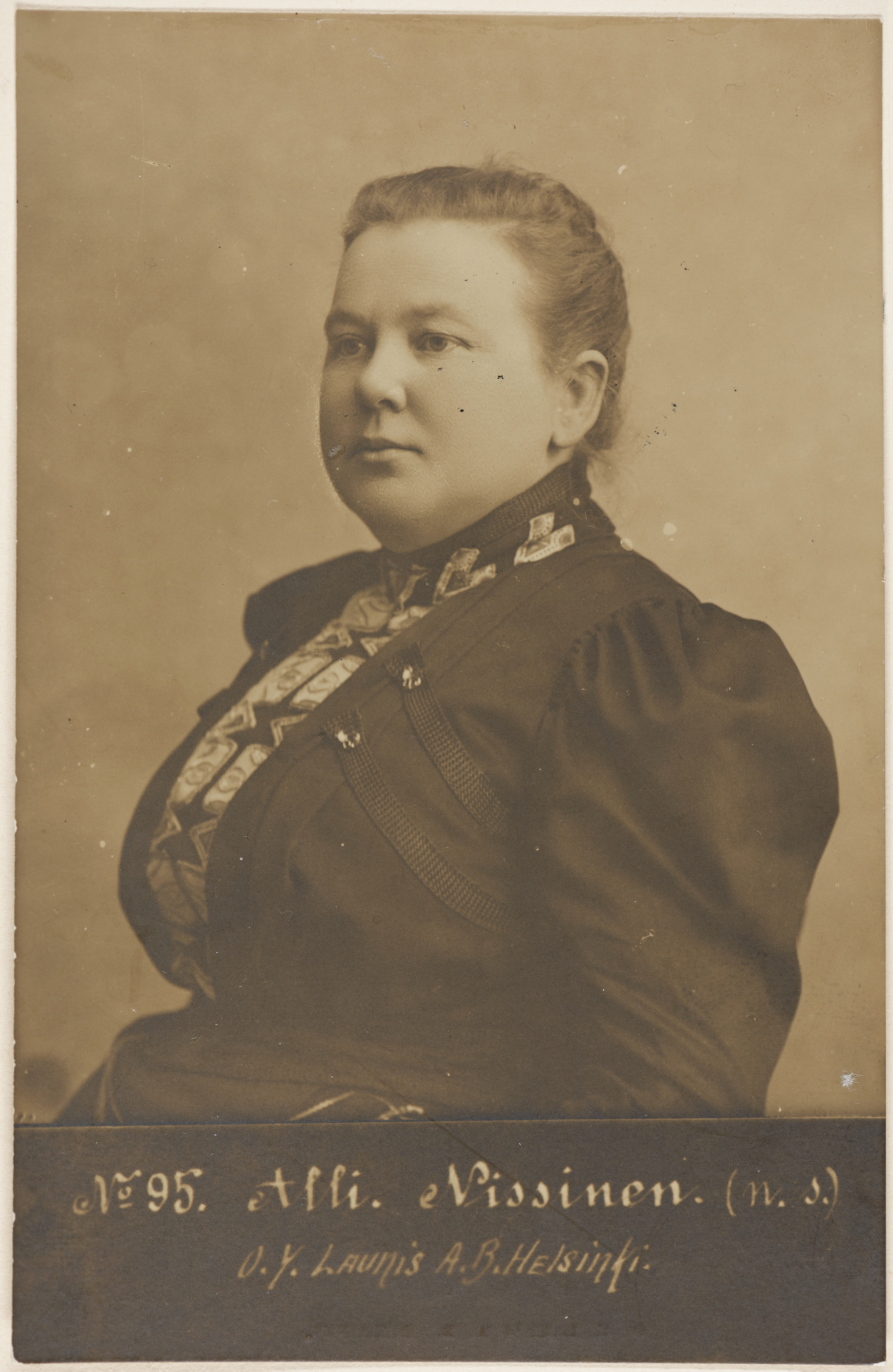 Photograph of the Finnish politician Alli Nissinen (1866–1926).